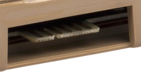 Commodore 64 cassette port (cropped from File:Commodore-64-Back.jpg)